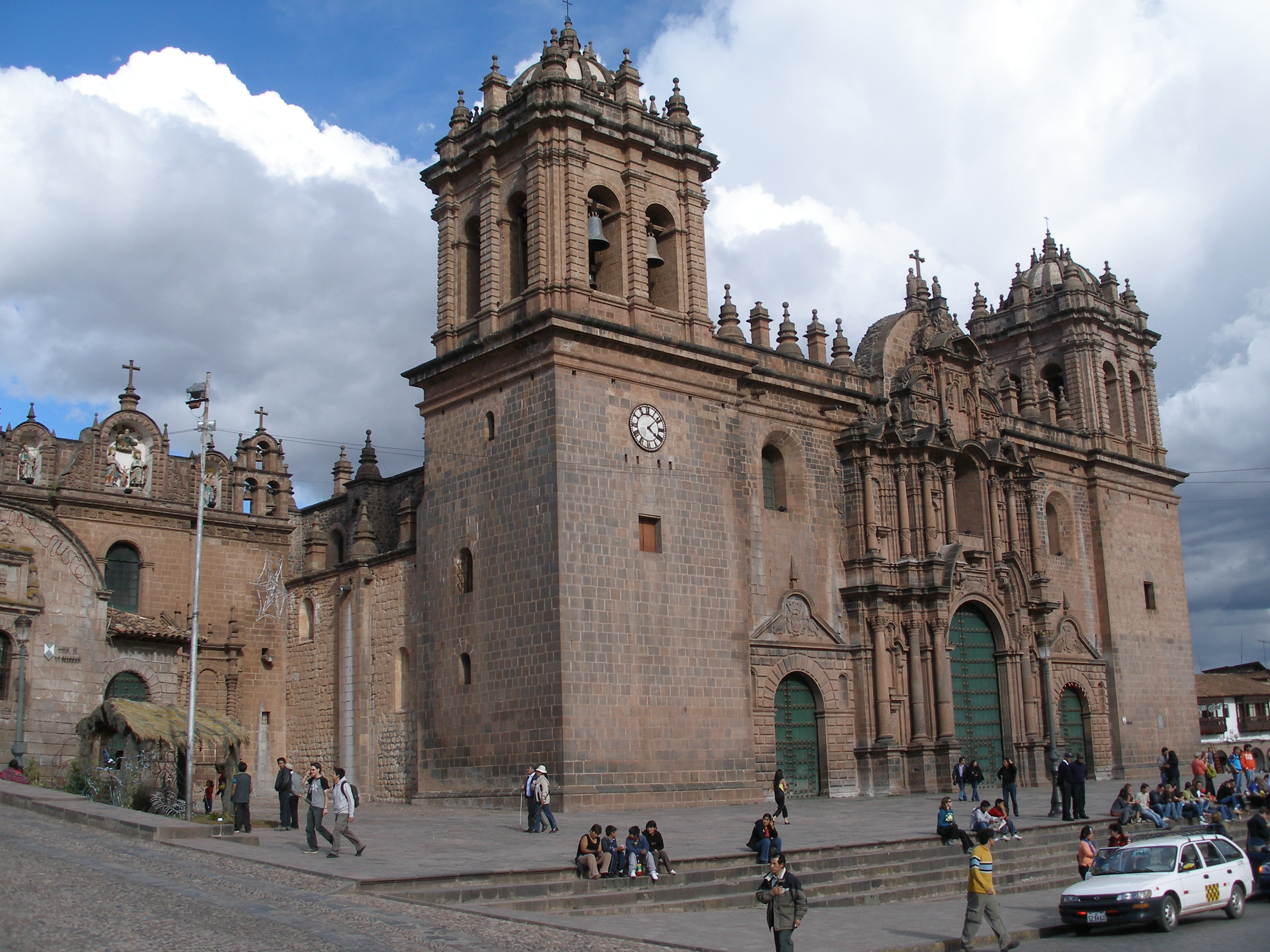 Cathedral at the Plaza di Armas in central Cuzco, Peru.